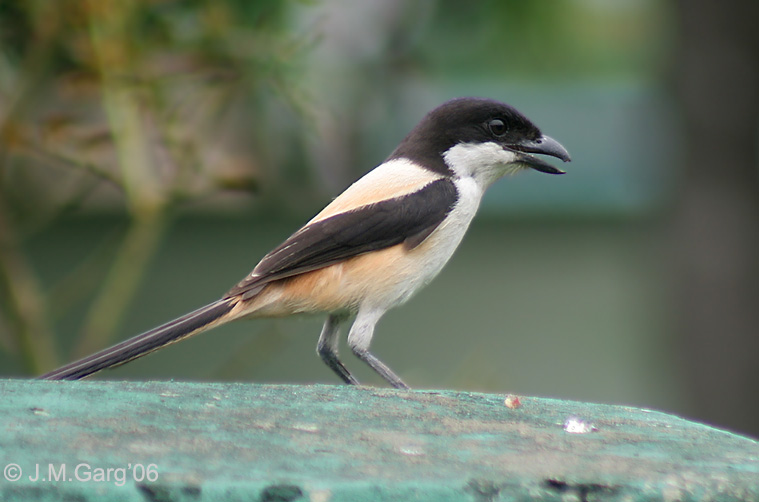 Long-tailed Shrike (Lanius schach) in Kolkata, West Bengal, India.